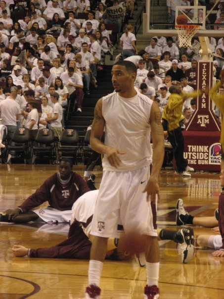 Acie Law